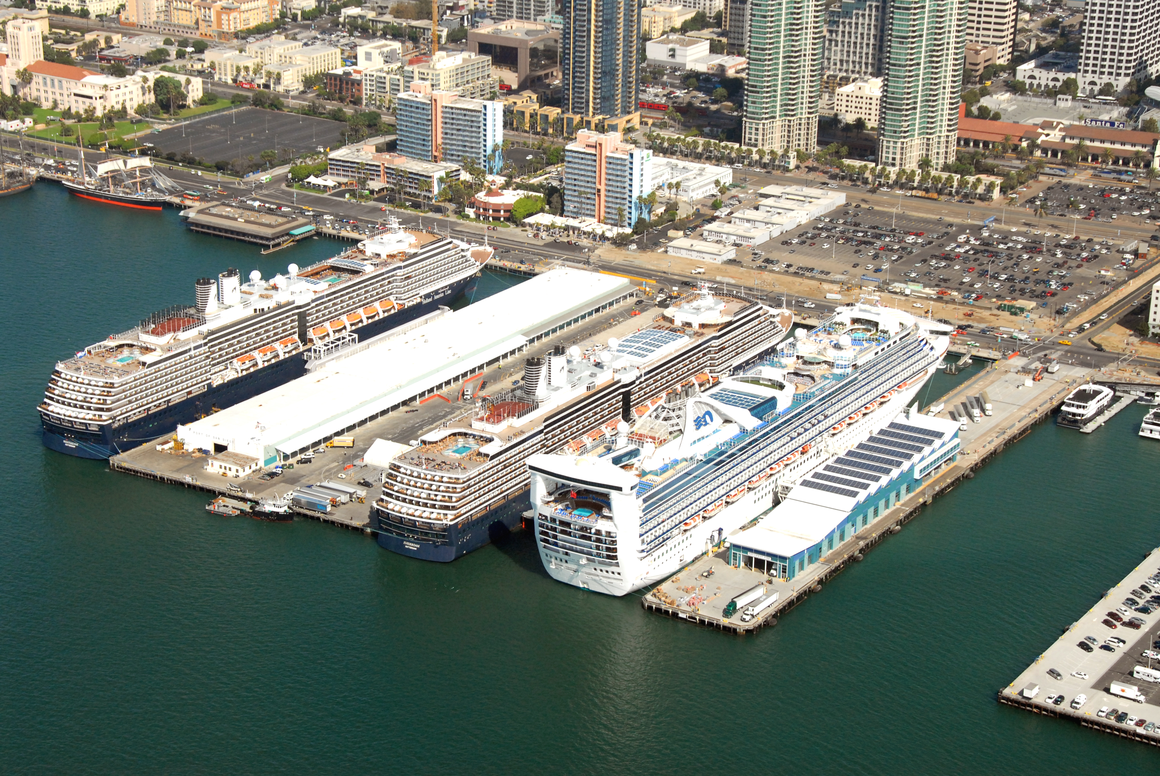 Aerial view of the Port of San Diego with three cruise ships in Port, from Oct. 4, 2012.